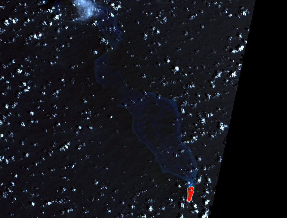 Landsat 7 image of Manila Reeef with Houk Island (Pulusuk) at its southeastern tip, Chuuk State, Federated States of Micronesia